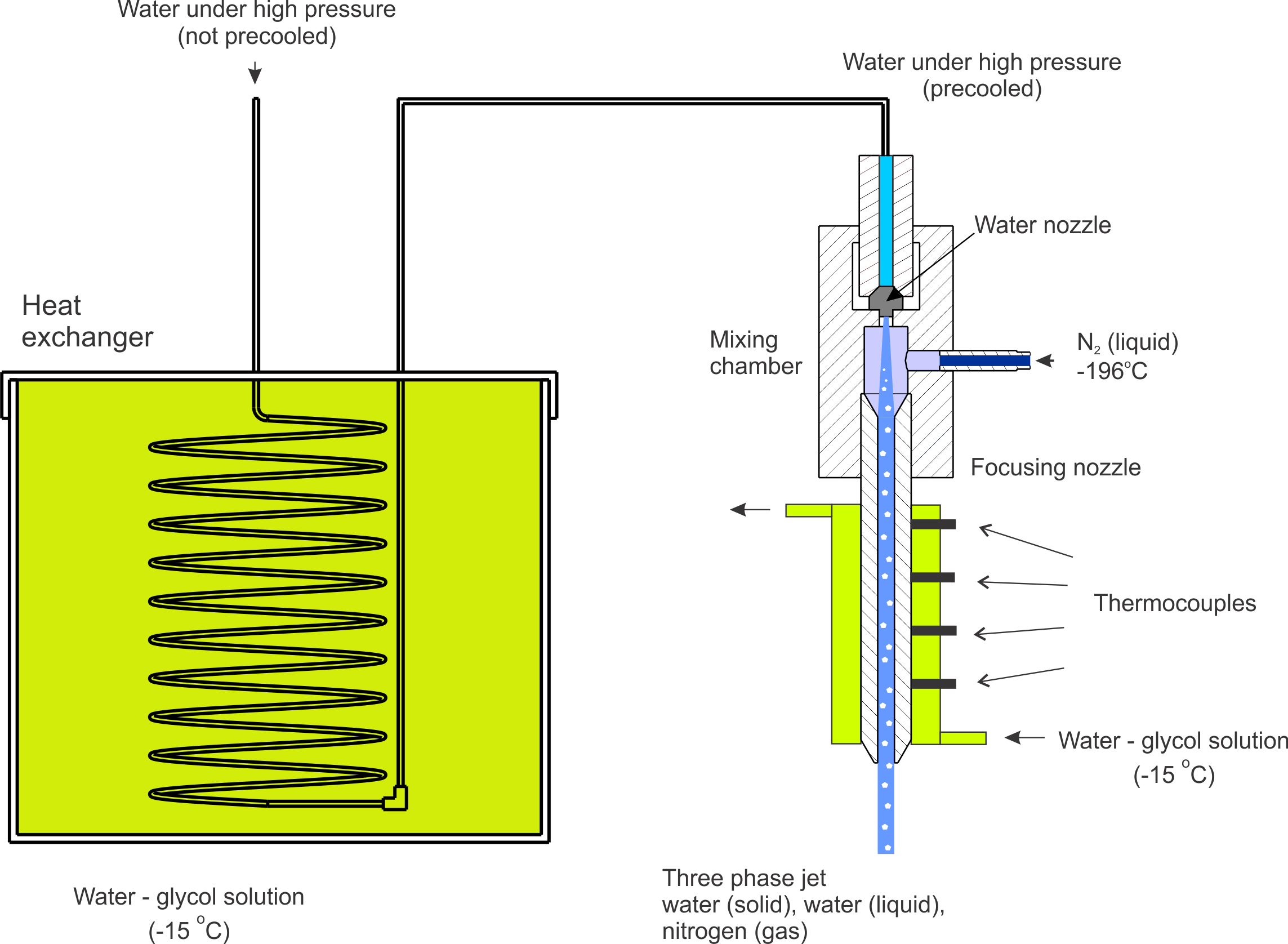 IceJet cutting system. (courtesy of University of Ljubljana, Laboratory of alternative technologies).